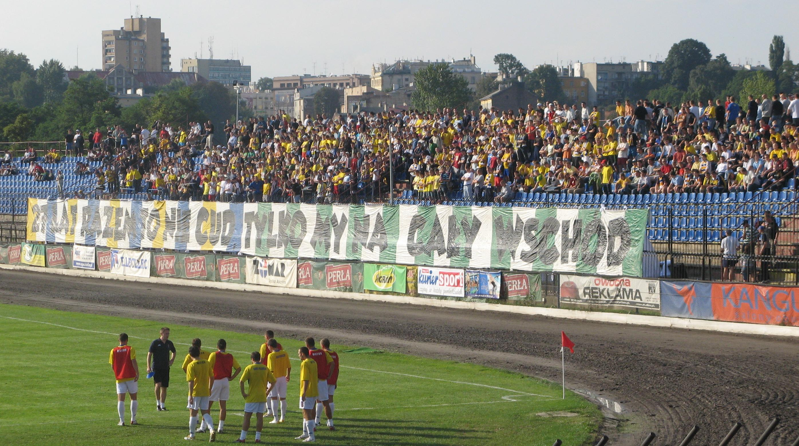 Motor Lublin playing against Polonia Warsaw.